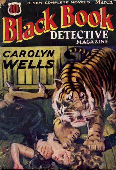 Black Book Detective March 1934